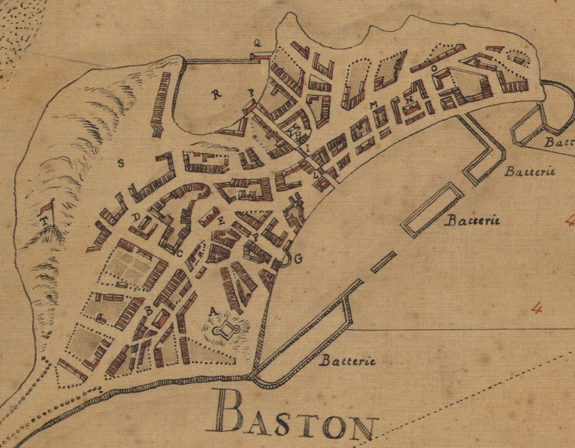 1693 map of Boston by Franquelin